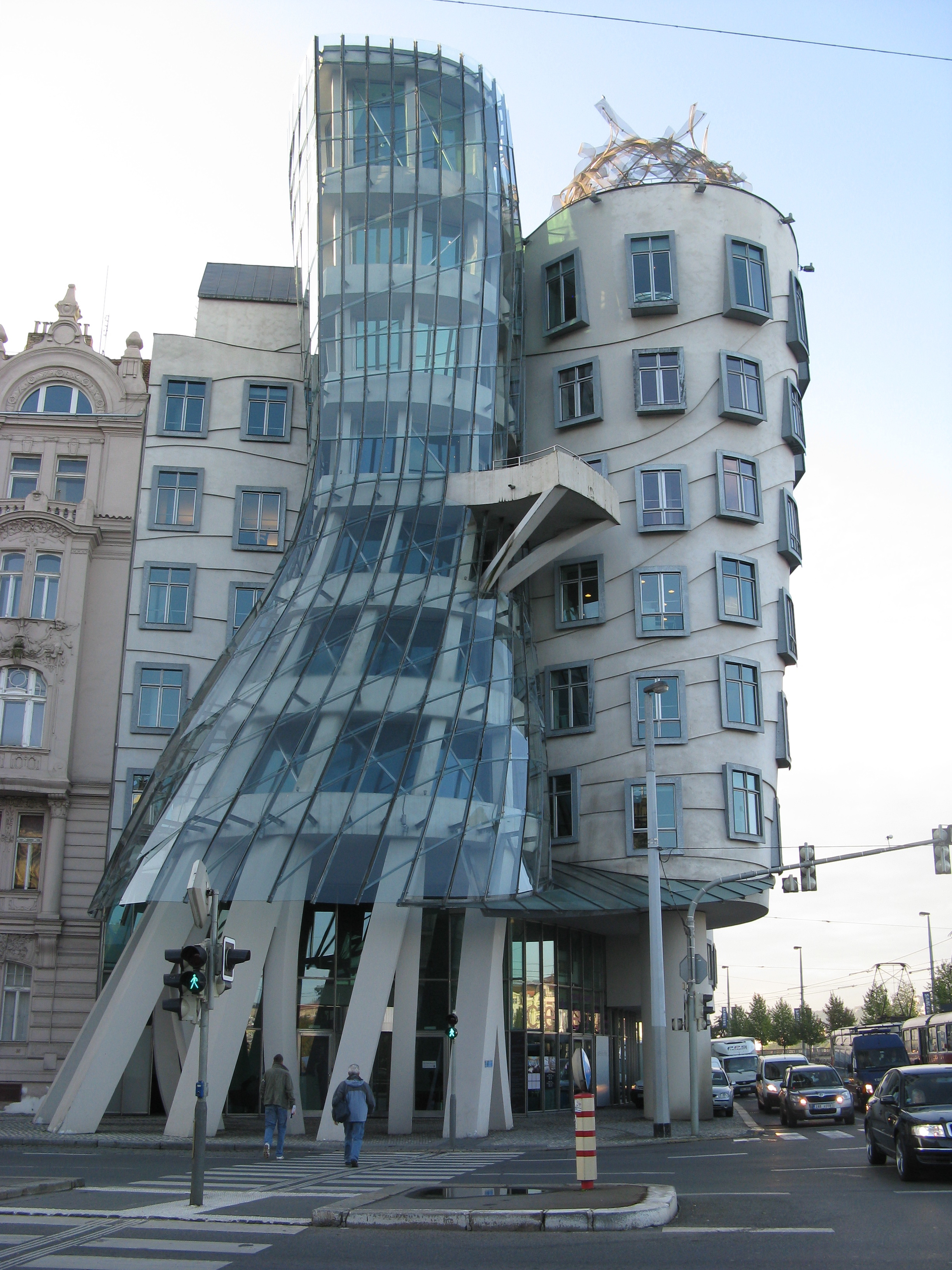 Dancing House in Prague.